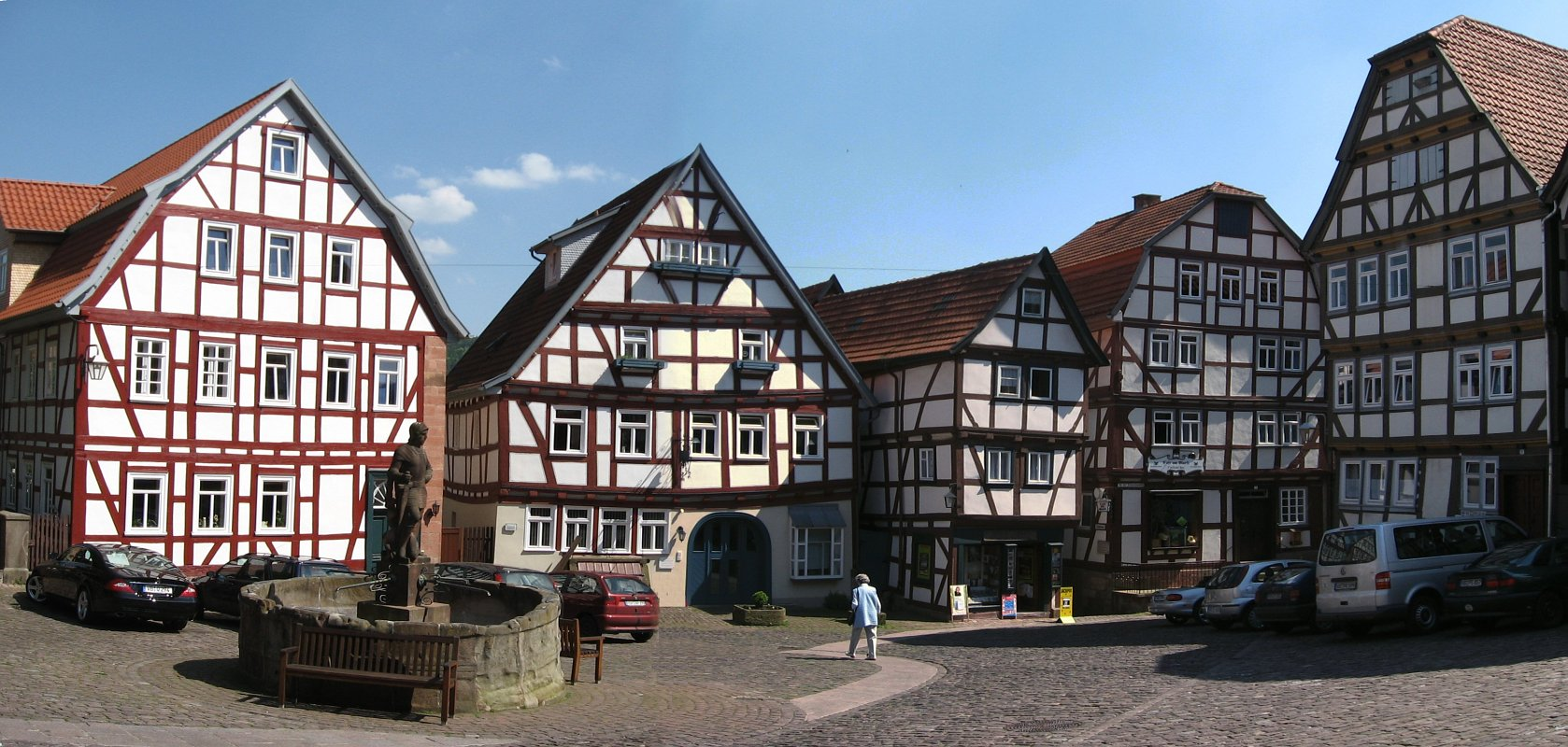 Germany / Hesse: town Schlitz: market place